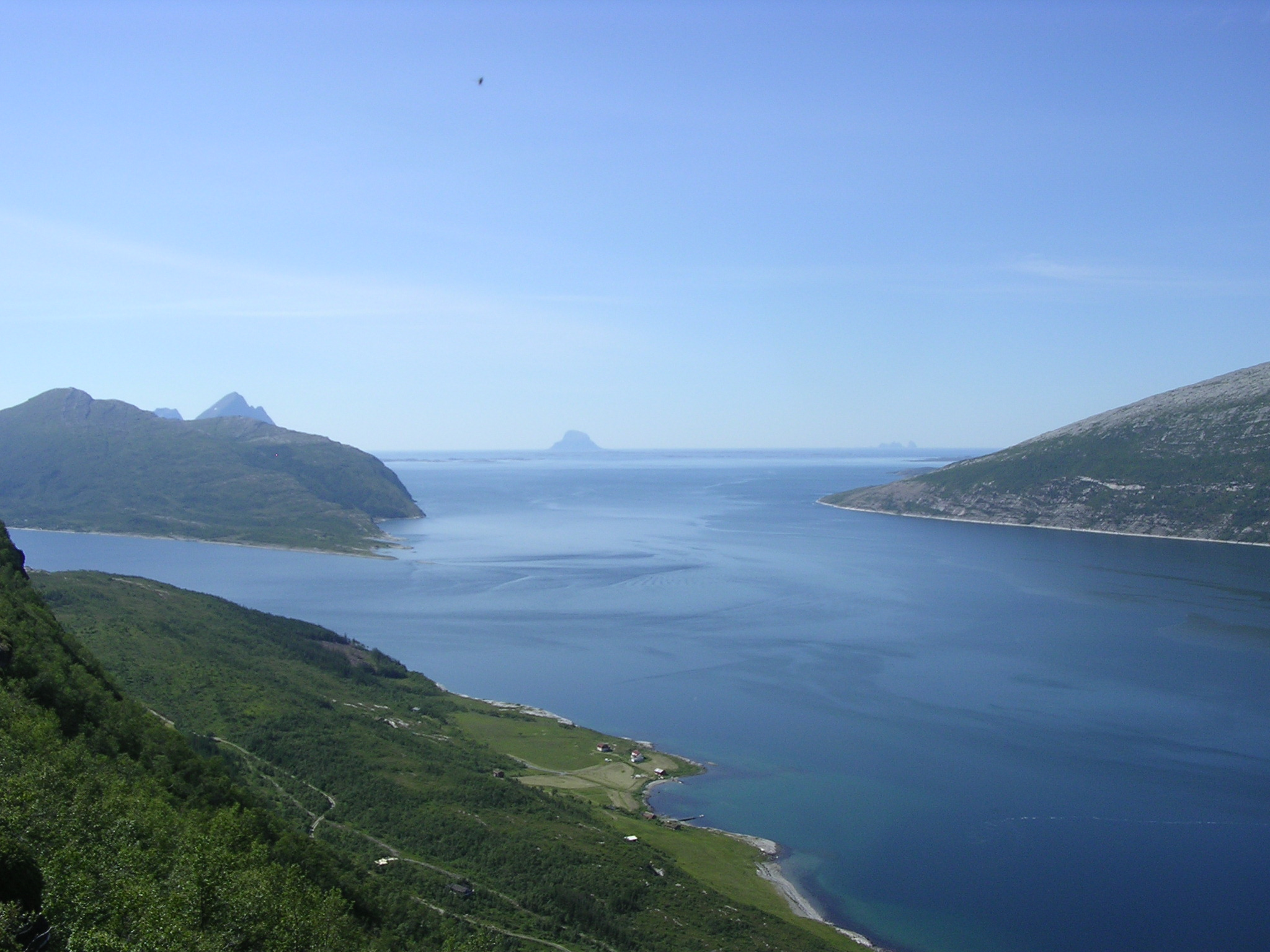 The opening of the fjord Sjona in Nordland, Norway, seen from Sjonfjellet. To the left the island Handnesøya, behind Handnesøya the peak Tomskjeveln on Tomma. The characteristic profiles of Lovund (center) and Træna (right) can be seen in a distance.